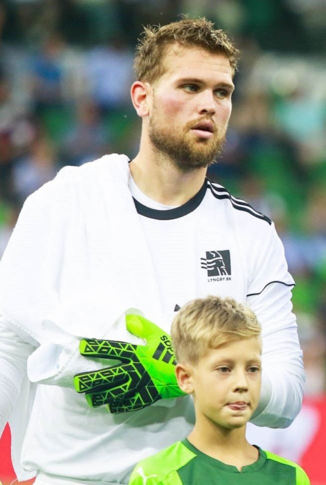 Mikkel Andersen with Lyngby BK in an Europa League game against FC Krasnodar.